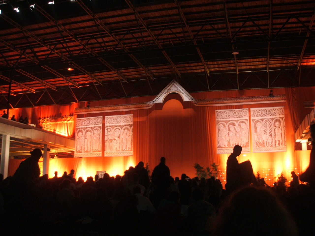 Evening prayer at Taizé meeting in Zagreb.